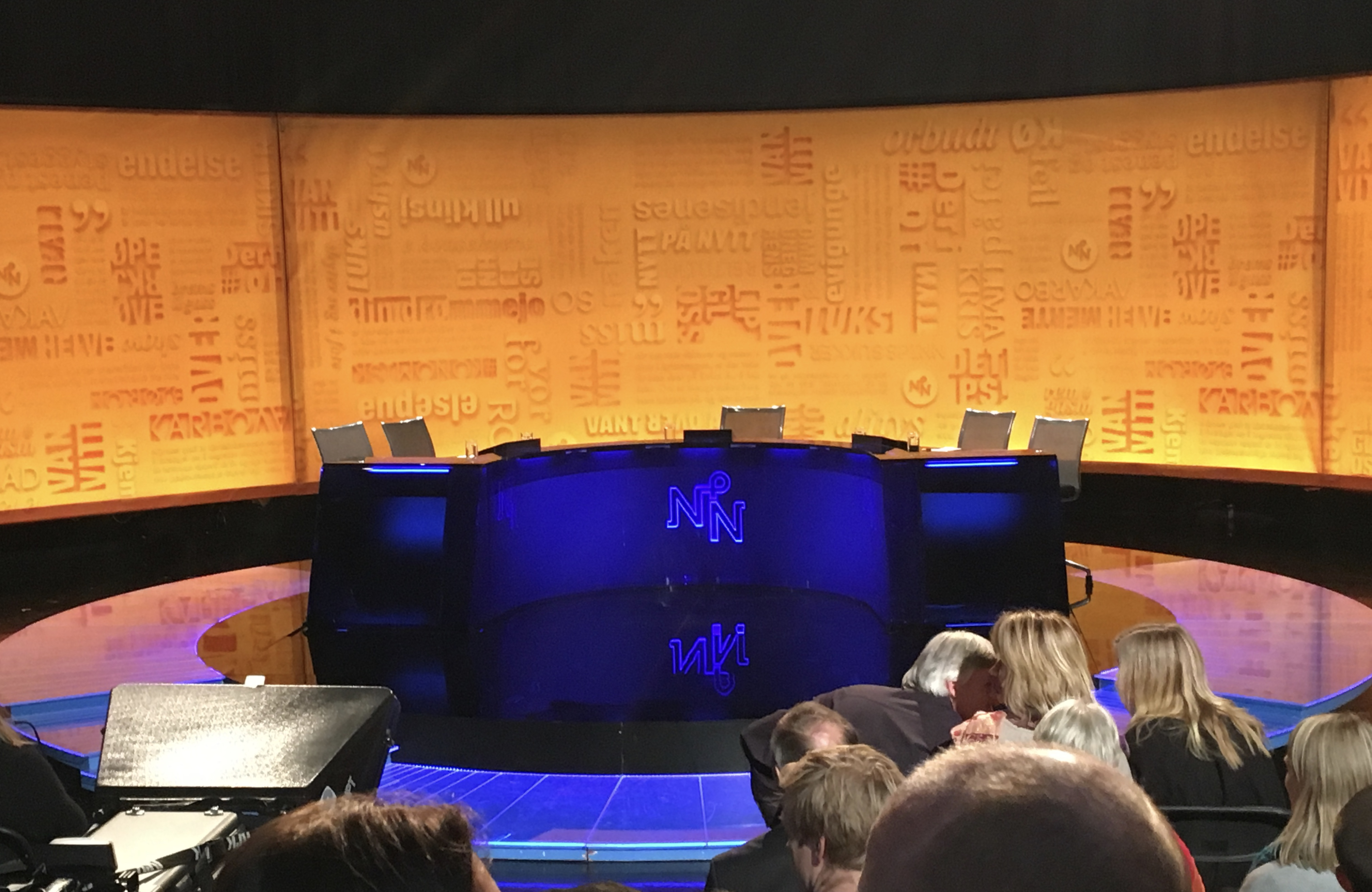 Picture of the studio before recording of the norwegian tv-show "Nytt på Nytt", january 2016.